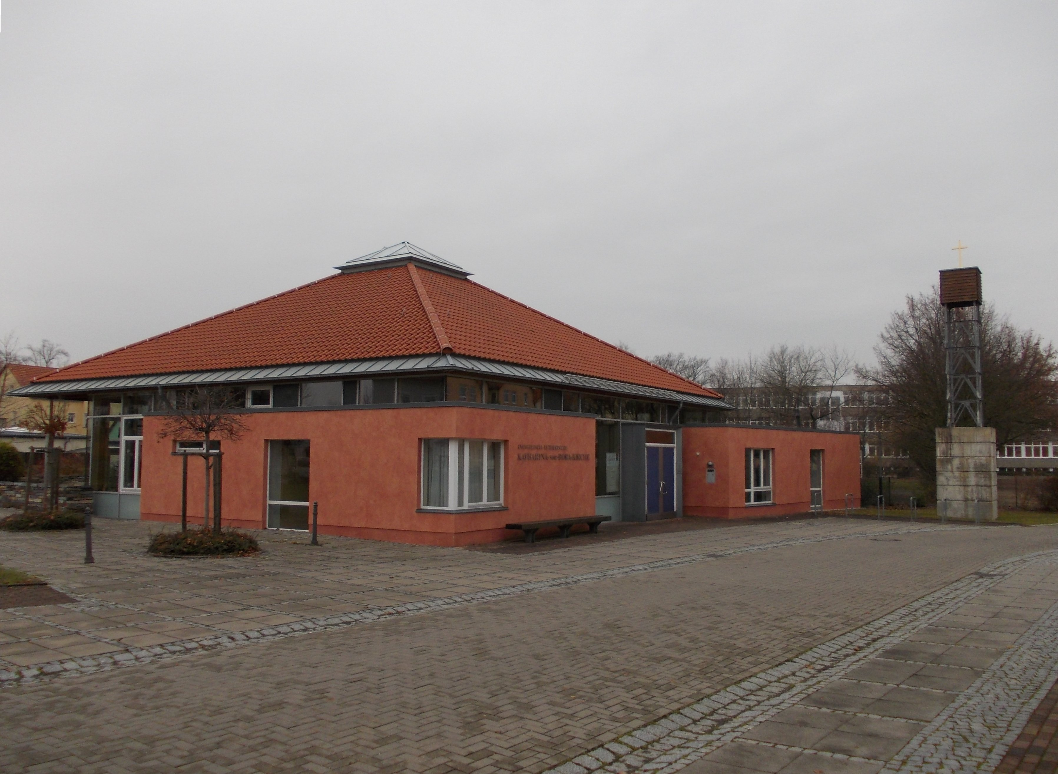 Katharina von Bora church in Neukieritzsch (Leipzig district, Saxony)